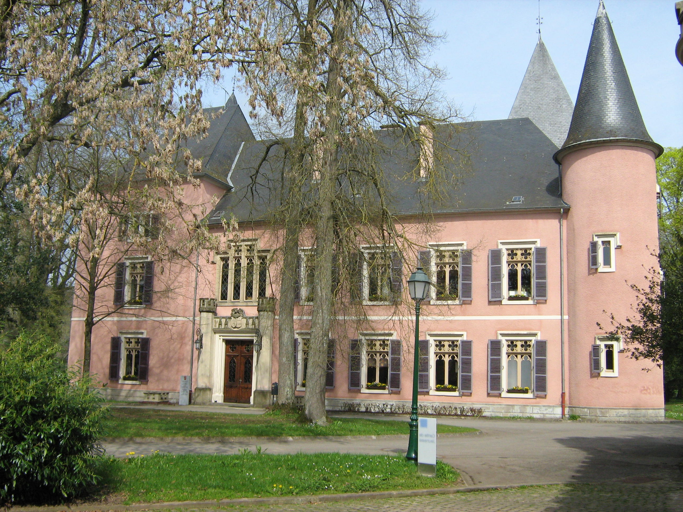 Erpeldange Castle near Diekirch, Luxembourg